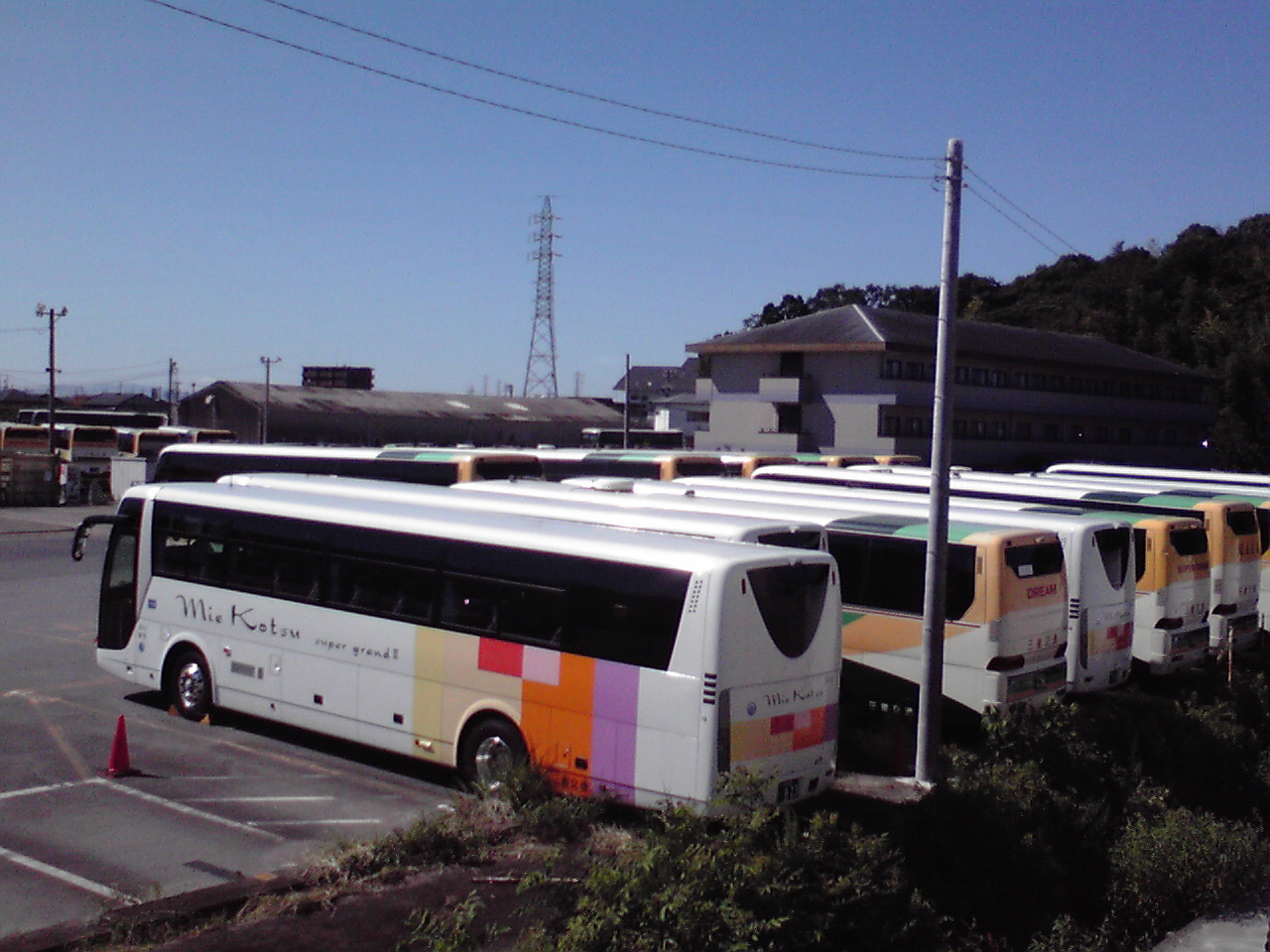 This is the buses belong to Mie Kotsu Ise Branch in Ise, Mie.